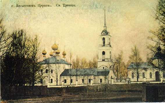 Church of Saint Trinity in Vesyegonsk. Pre-1917 Russian Postcard Flickr data on 2011-08-13 Tags: Old picture, Church, Vesyegonsk, postcard, scan, Public Domain License: CC BY-SA 2.0 User: paukrus Ruslan